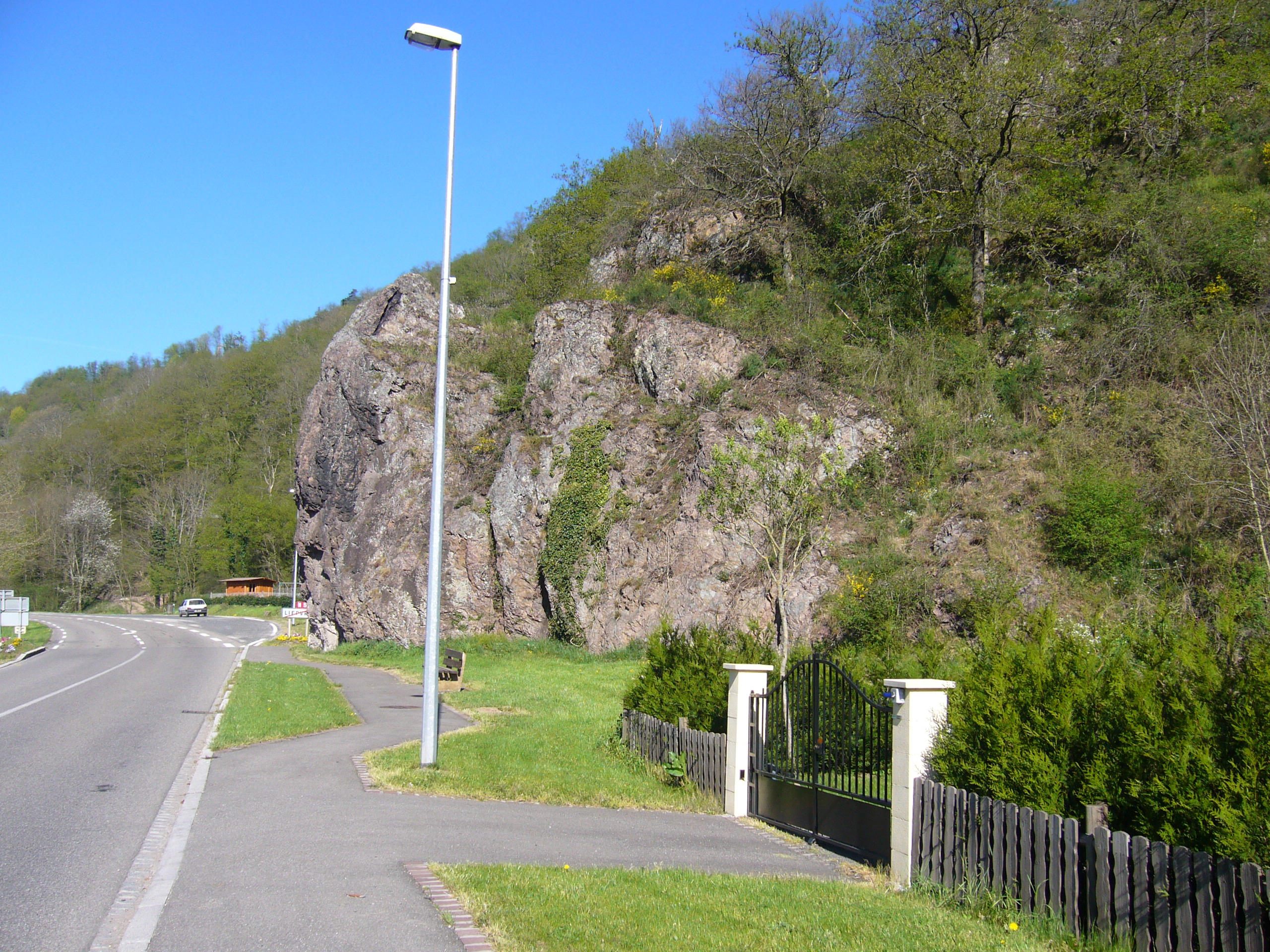 Le rocher du violon à Musloch